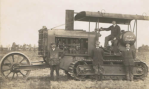 1916 Clayton & Shuttleworth tractor.